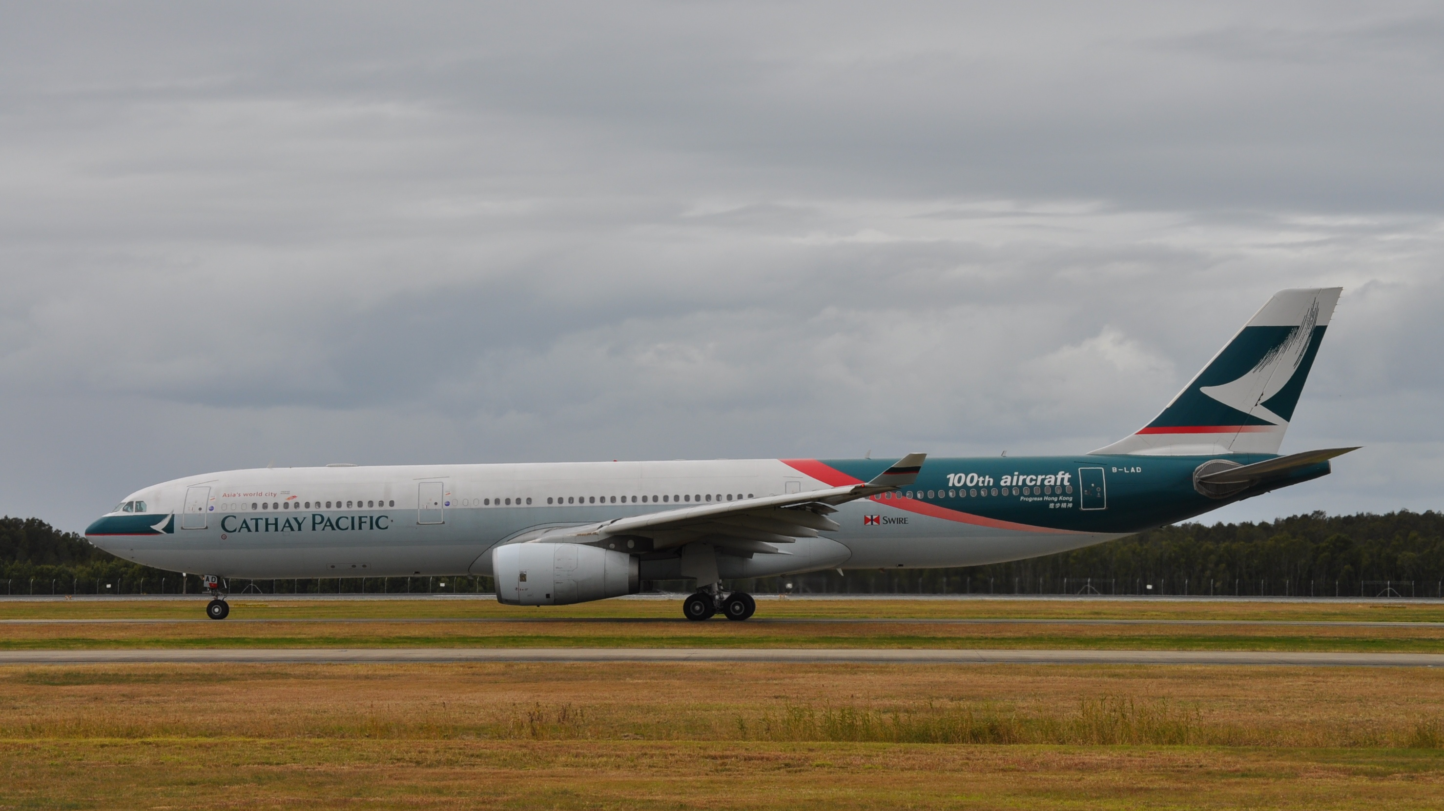 Brisbane Airport, 24 July 2010